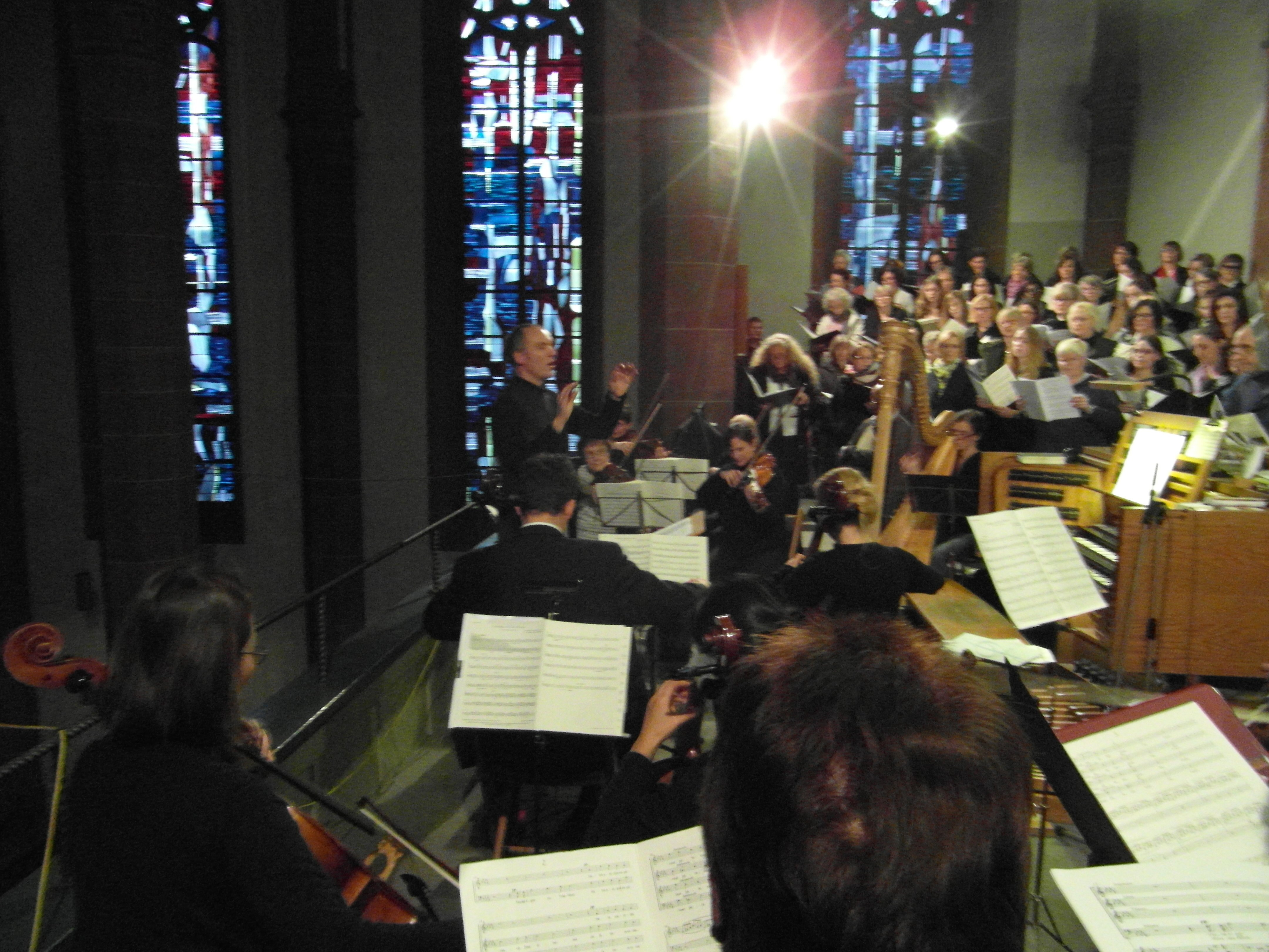 St. Bonifatius, Wiesbaden, rehearsal of a project choir, Franz Fink (Idstein) conducting Fauré's Cantique de Jean Racine, part of 21. Wiesbadener Bachwochen